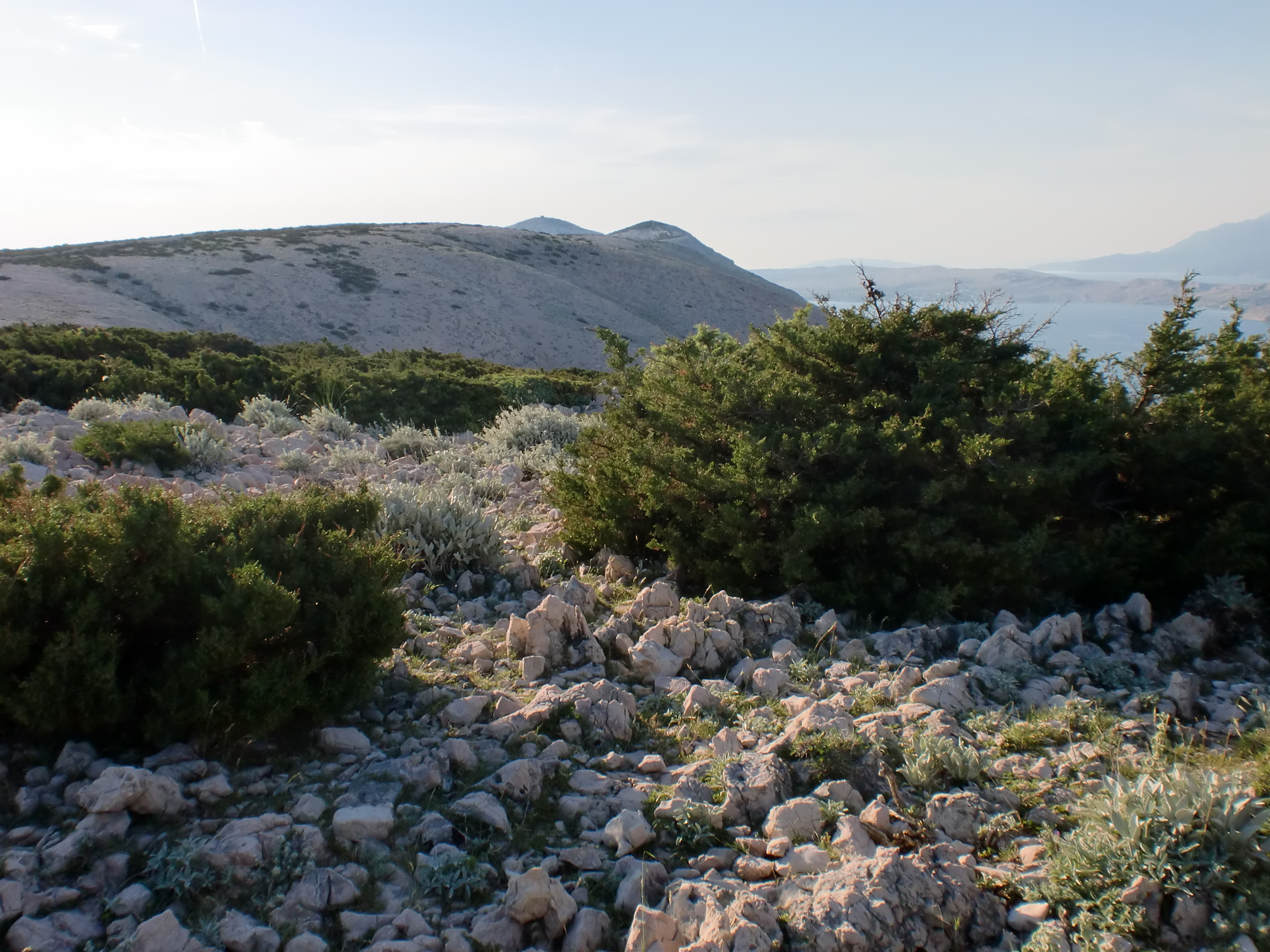 On a mountain close to Bošana